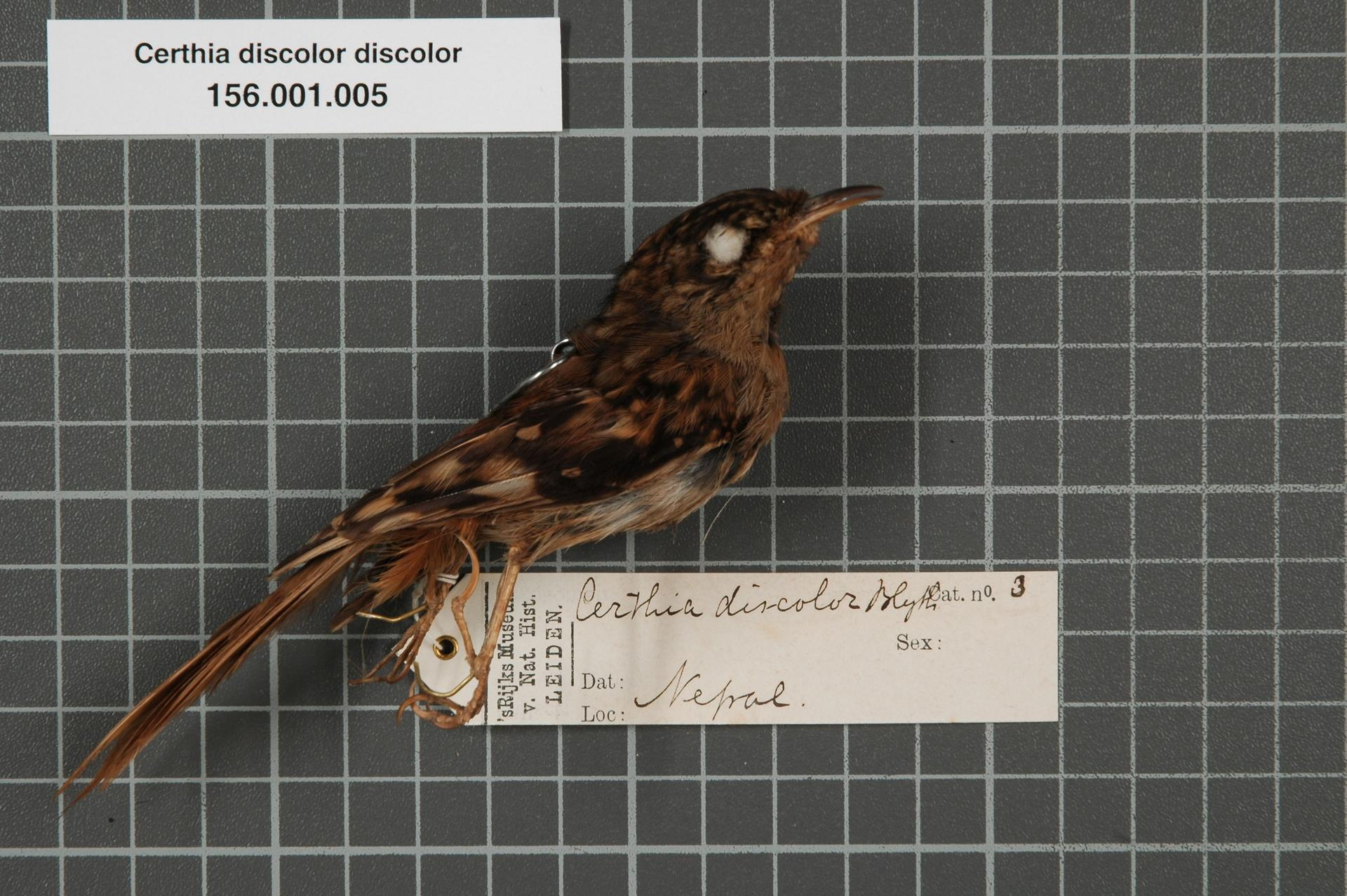 Certhia discolor discolor Blyth, 1845